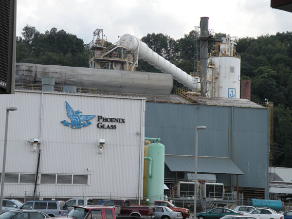 Picture of the Phoenix Glass Company/Anchor Hocking Plant #44 in Monaca, Pennsylvania.